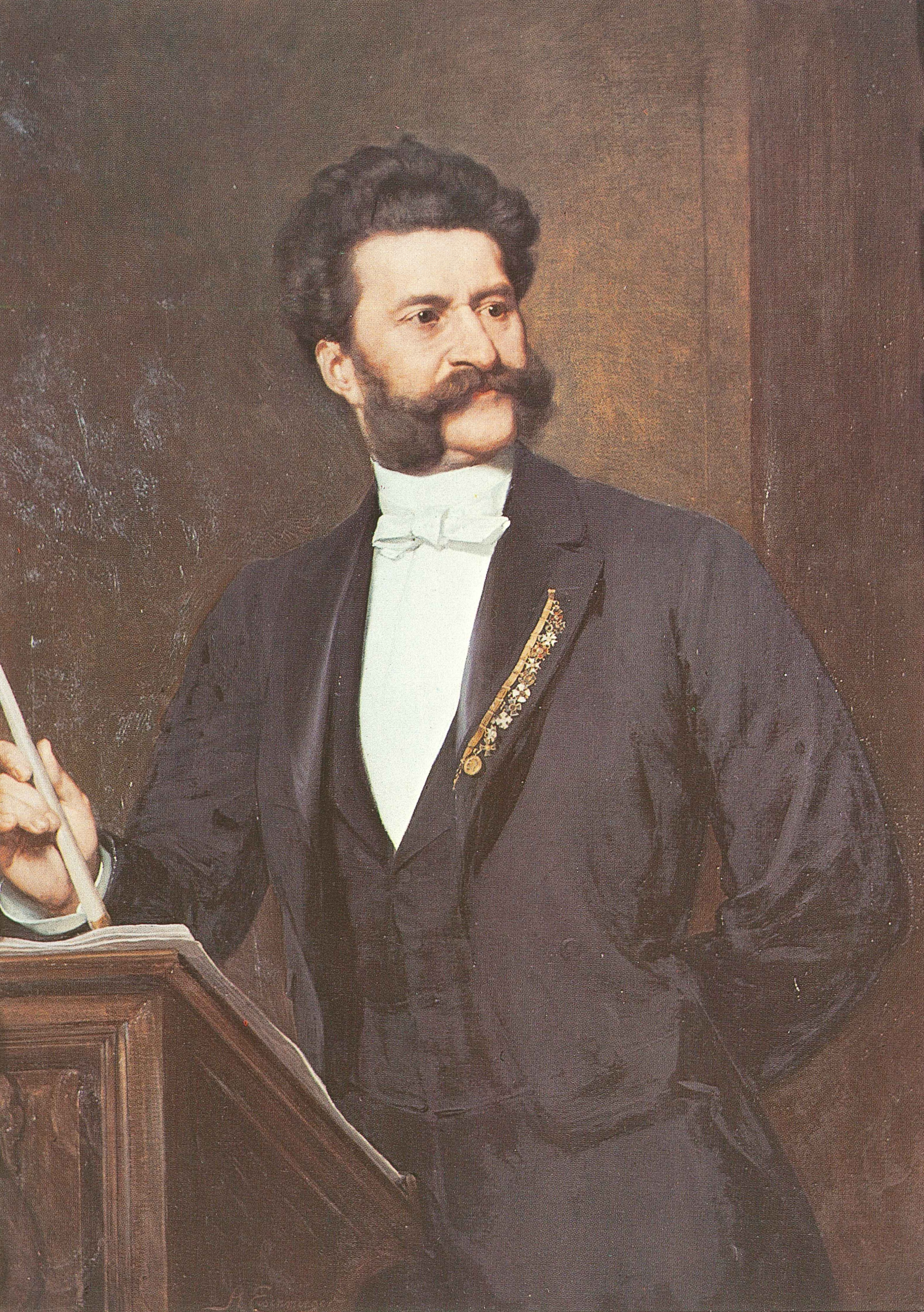 Johann Strauss II, Austrian composer